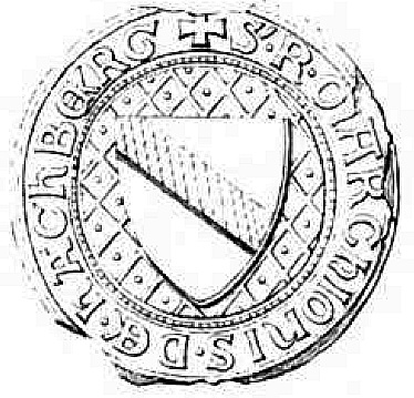 Seal of Rudolf II, Margrave of Hachberg-Sausenberg